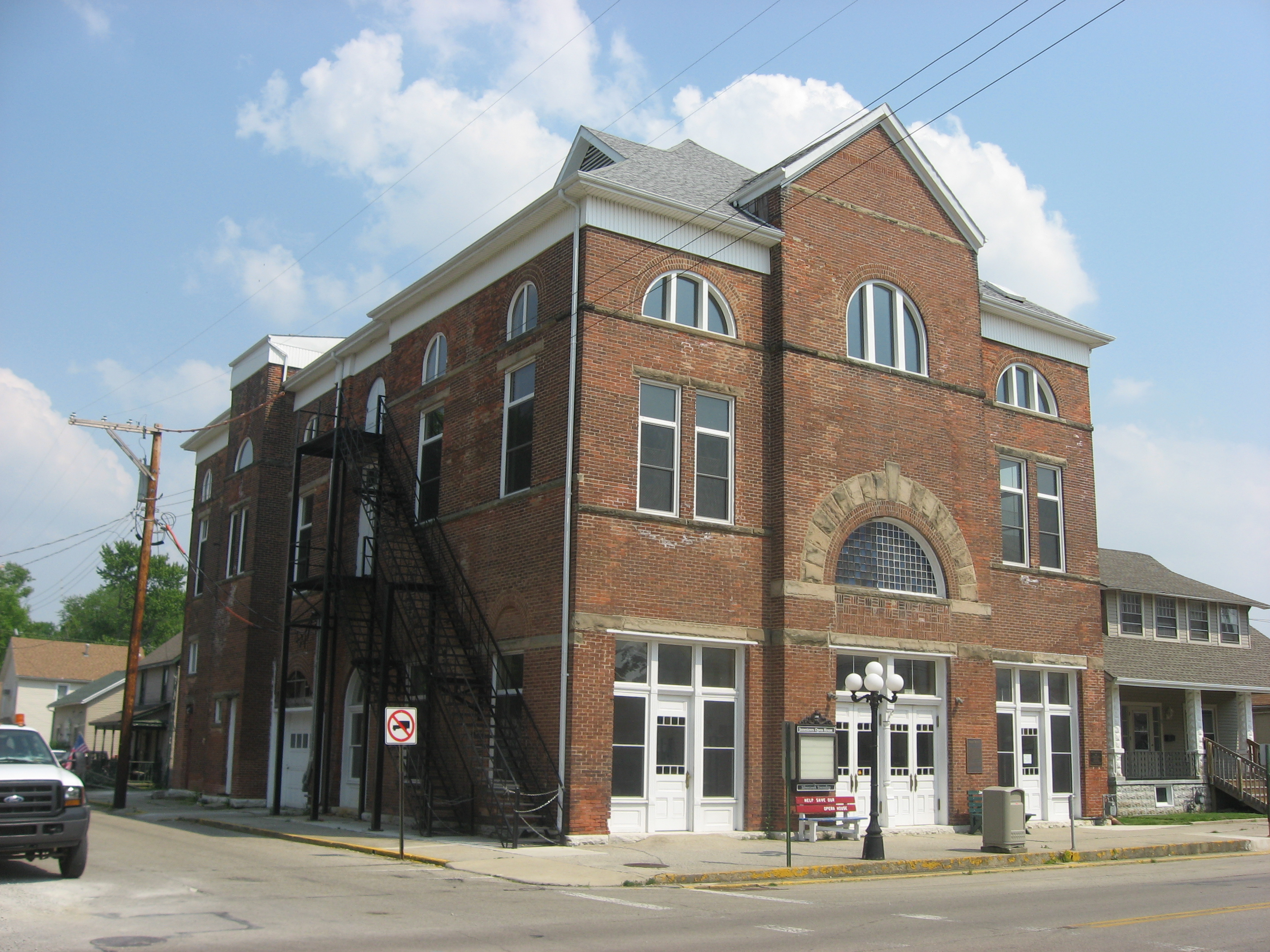 Front and northern side of the Jamestown Opera House, located at 19 N. Limestone Street (State Route 72) in Jamestown, Ohio, United States. Built in 1889, it is listed on the National Register of Historic Places.